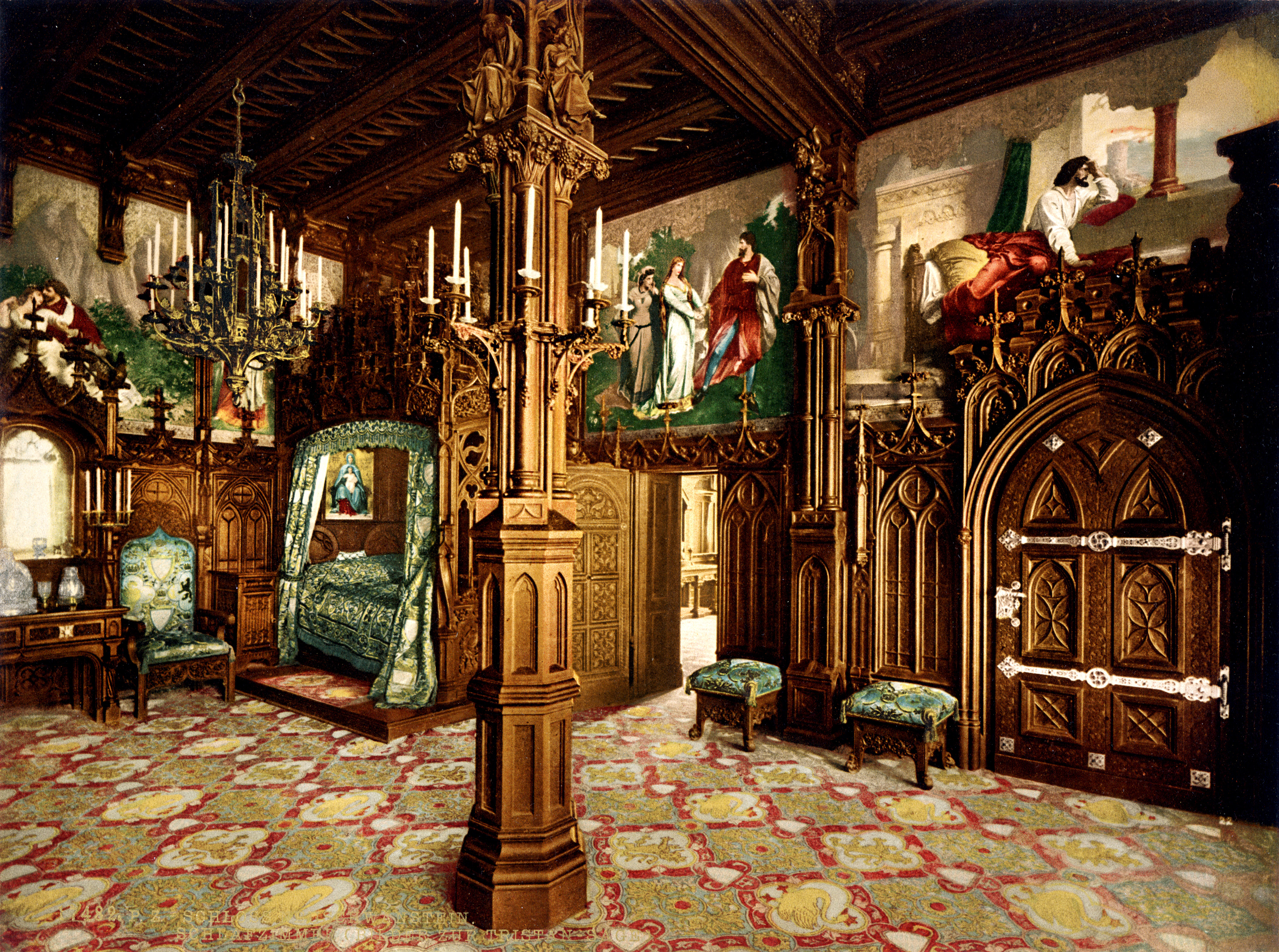 Pictures of the Tristan story, bedroom, Neuschwanstein Castle, Upper Bavaria, Germany. Photograph by Joseph Albert 1886, postcard published ca. between 1890 and 1900. Detroit Publishing Co. print no. 17482.